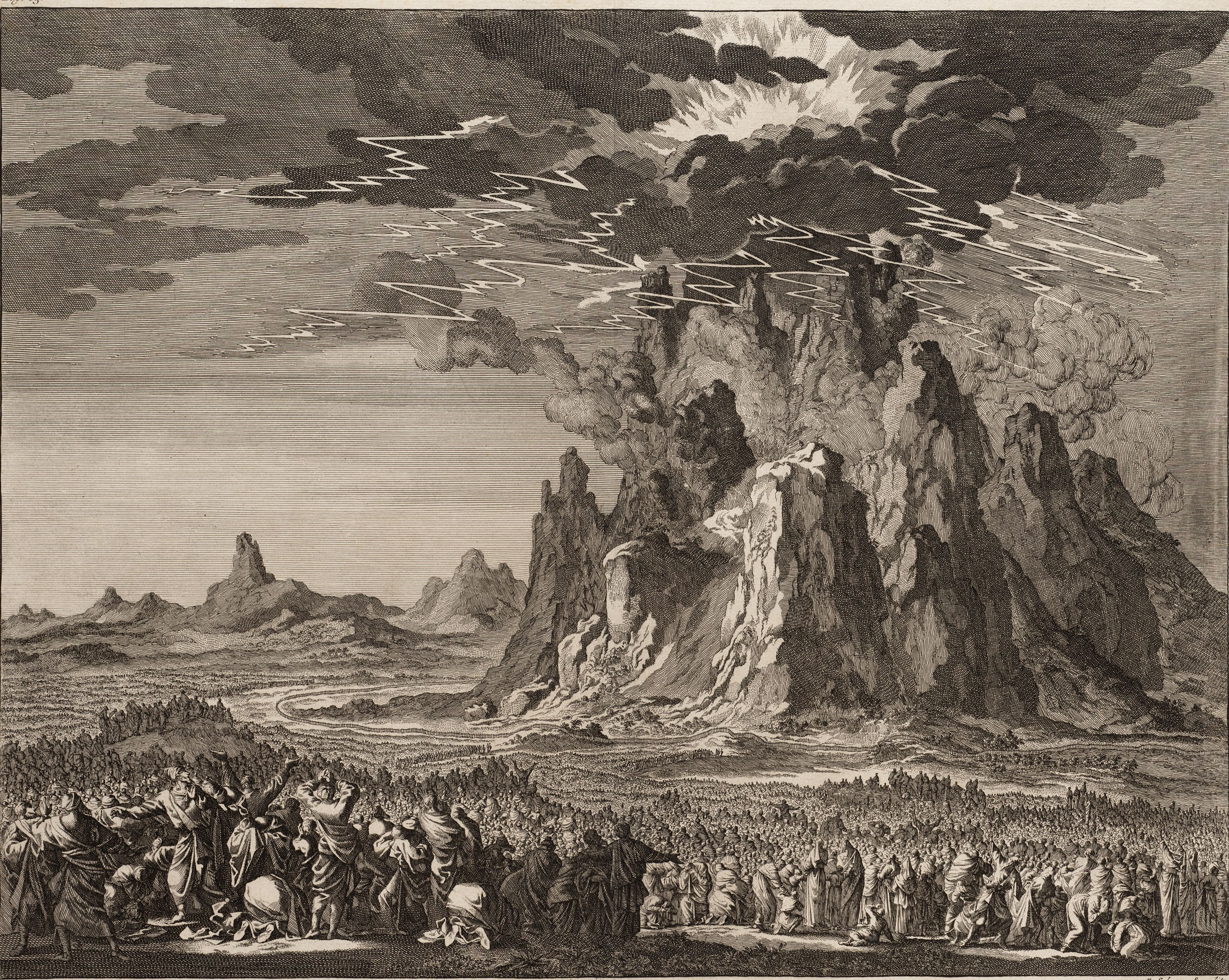 An illustration from the aforementioned book, published 1723 in Amsterdam